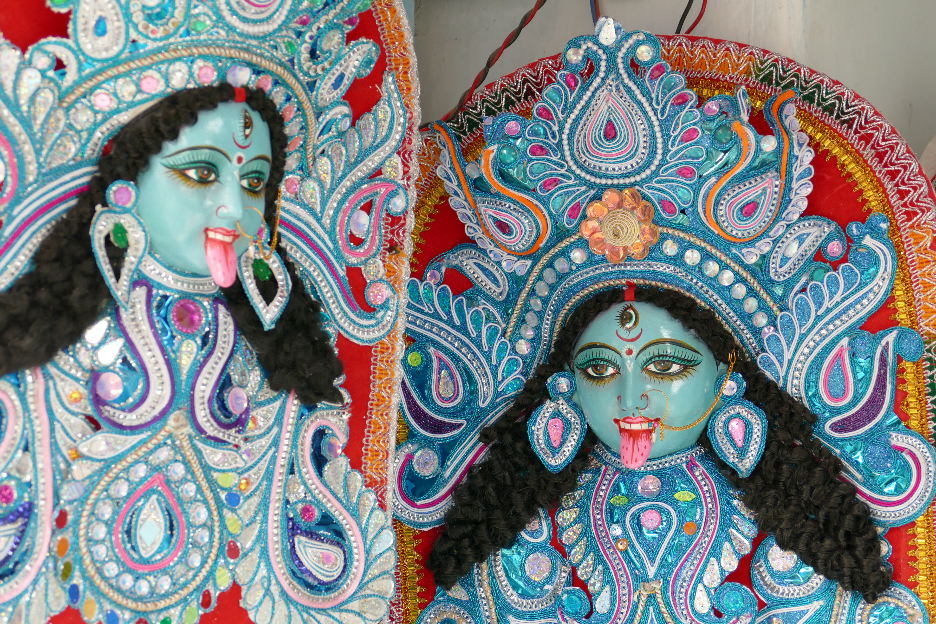 In Kumortuli, a quarter of Kolkata, idols of the goddess Kali are being constructed out of straw and clay